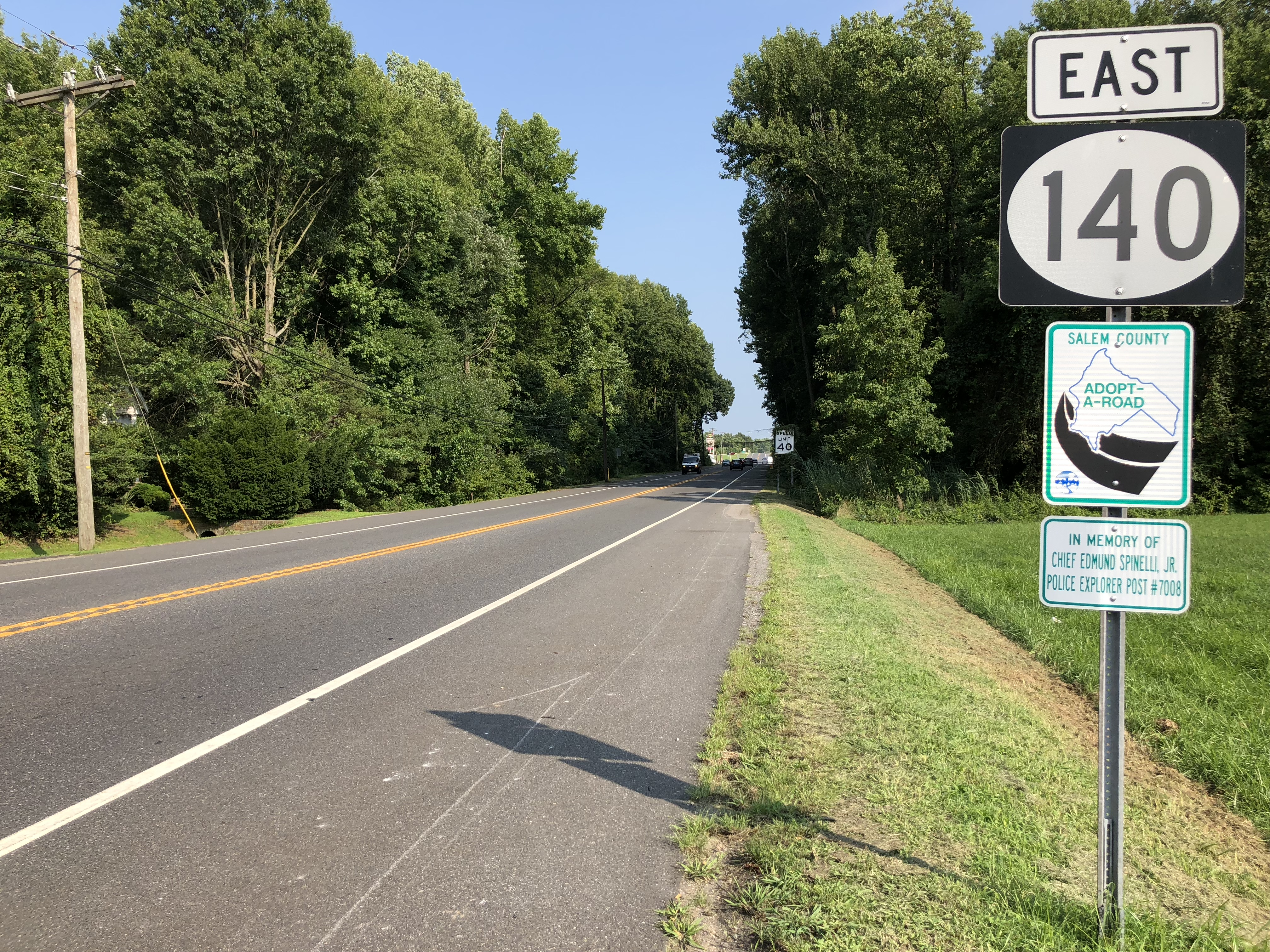 View east along New Jersey State Route 140 and Salem County Route 540 (Hawks Bridge Road) just east of U.S. Route 130 (Shell Road) in Carneys Point Township, Salem County, New Jersey